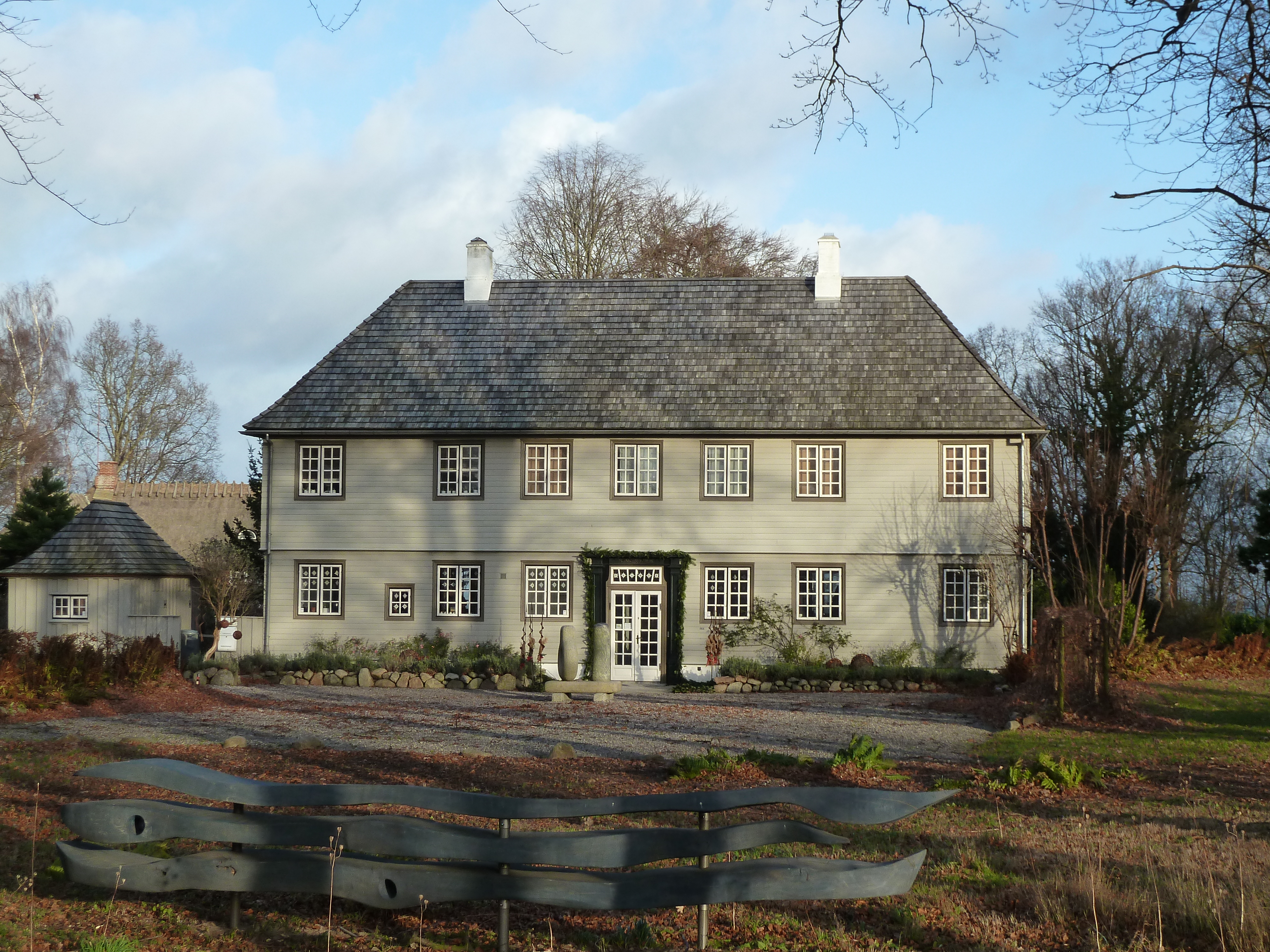 Munkeruphus north of Copenhagen, Denmark